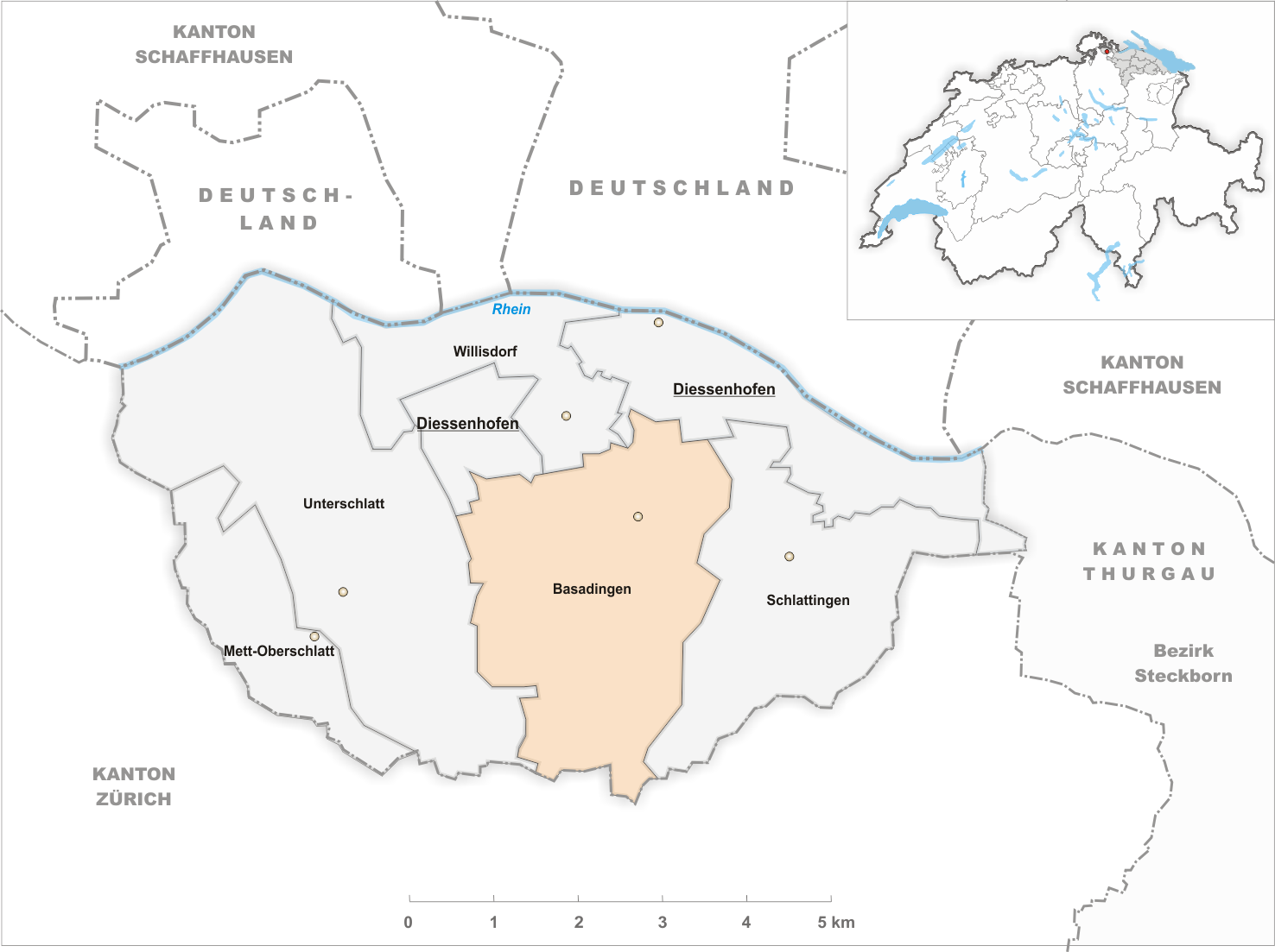 Municipality Basadingen